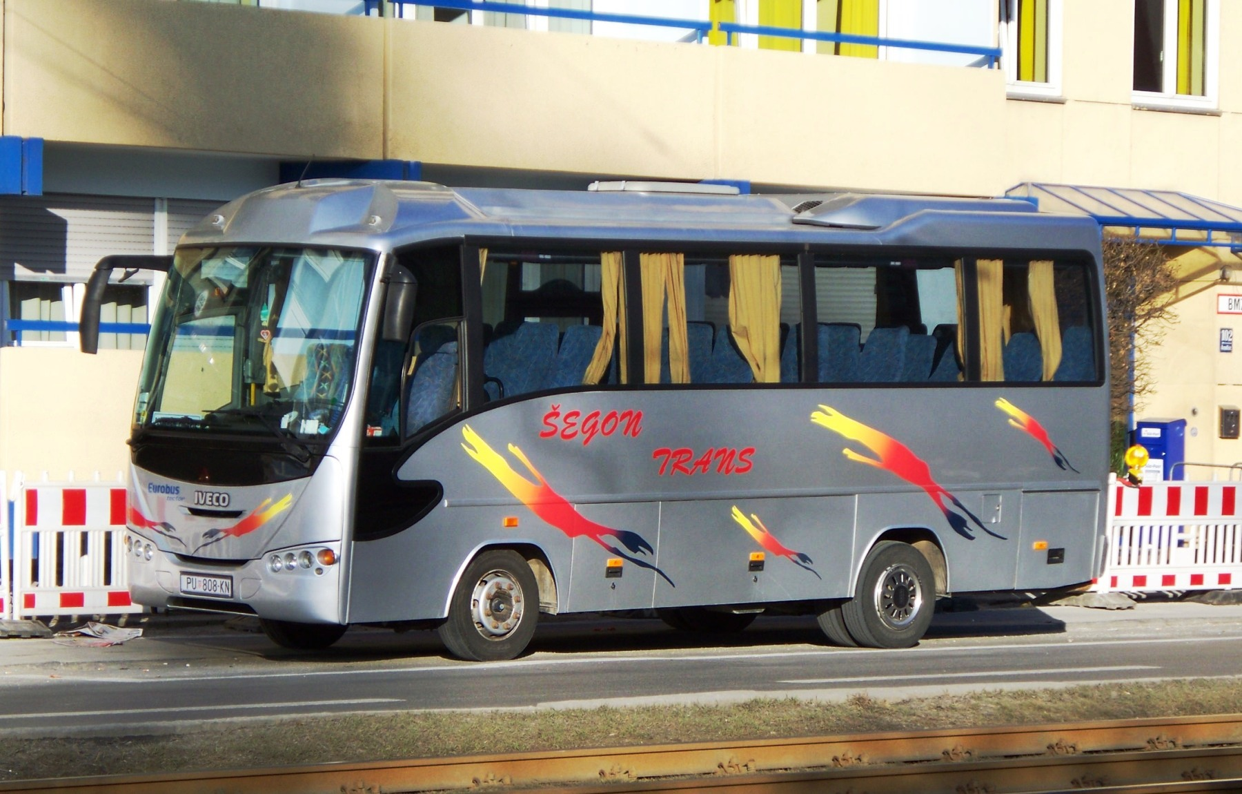 Croatian Iveco Eurobus.